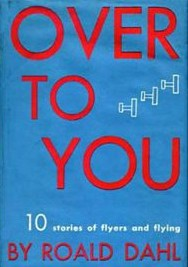 Roald Dahl: Over to You. Ten Stories of Flyers and Flying, New York 1946 - book cover of the first edition. Over to You was Dahl's first collection of short stories.